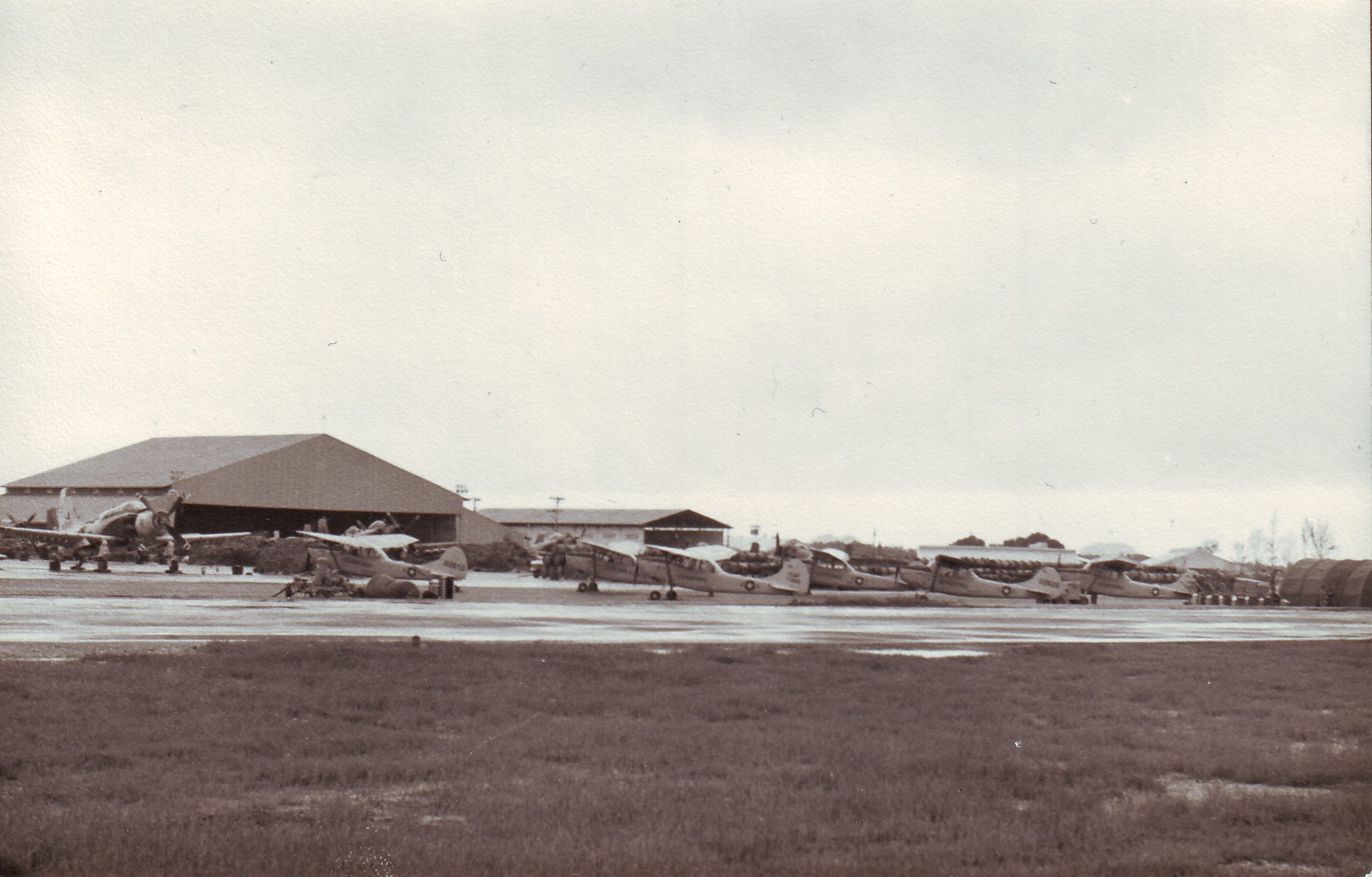 Flightline of the 20th Tactical Air Support Squadron at Danang Air Base, Danang RVN, in December 1966.